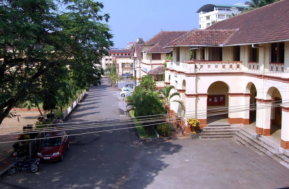 St. Agnes College